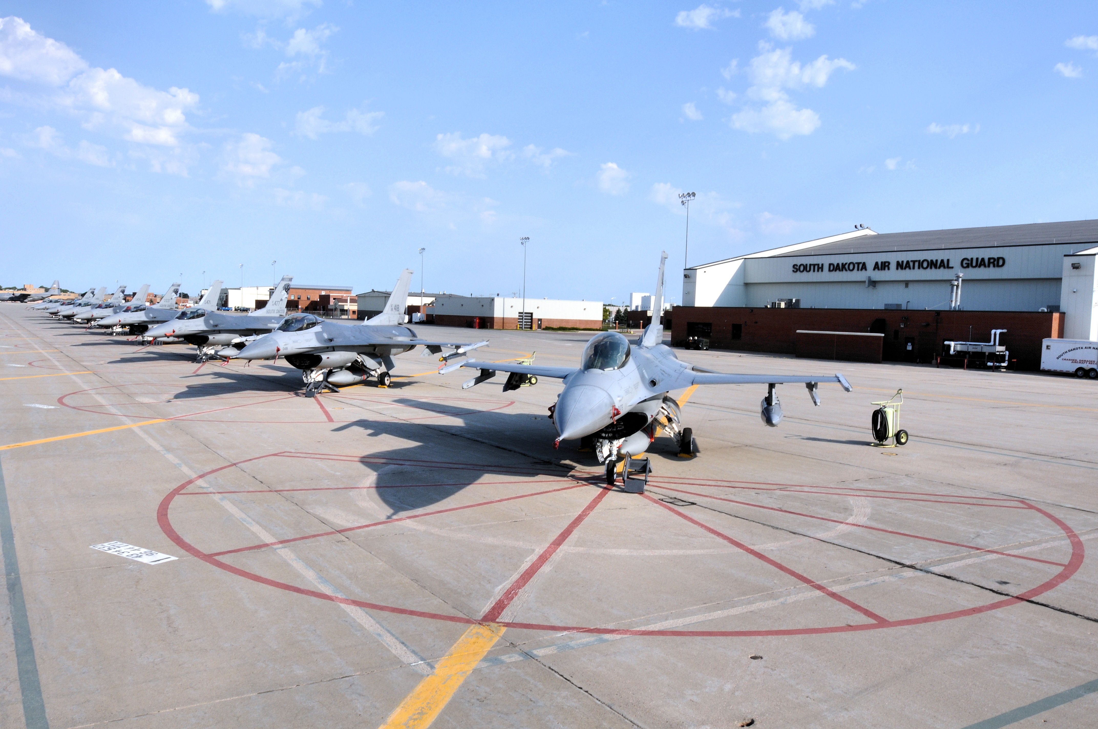 SIOUX FALLS, S.D. - The 114th Fighter Wing's block 40 F-16 aircraft sit on the flightline at Joe Foss Field, S.D. August 25, 2011. The unit is in the final phase of conversion from their old block 30 F-16's to the newer block 40's. All new aircraft have been recieved with final maintenance issues being addressed to finalize the conversion. (Photo by Master Sgt. Nancy Ausland)(RELEASED)USAF